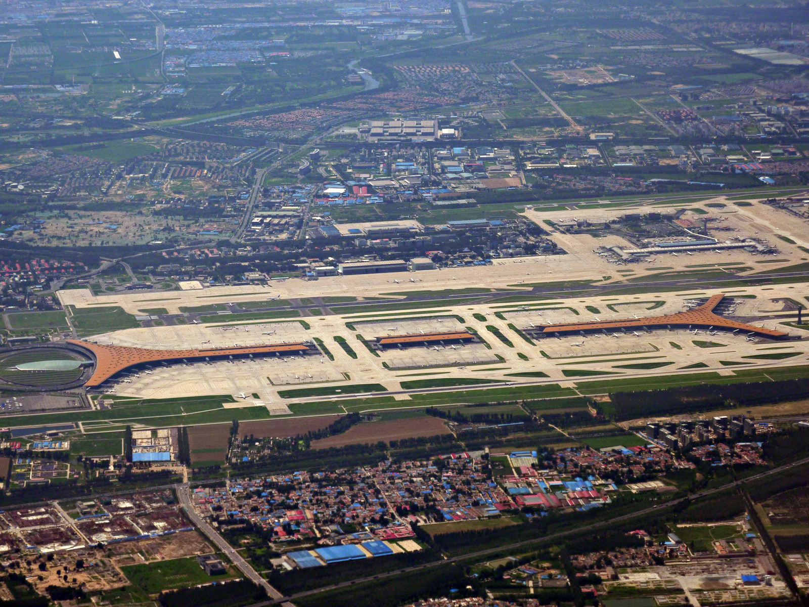 Aerial view of Beijing Capital International Airport.